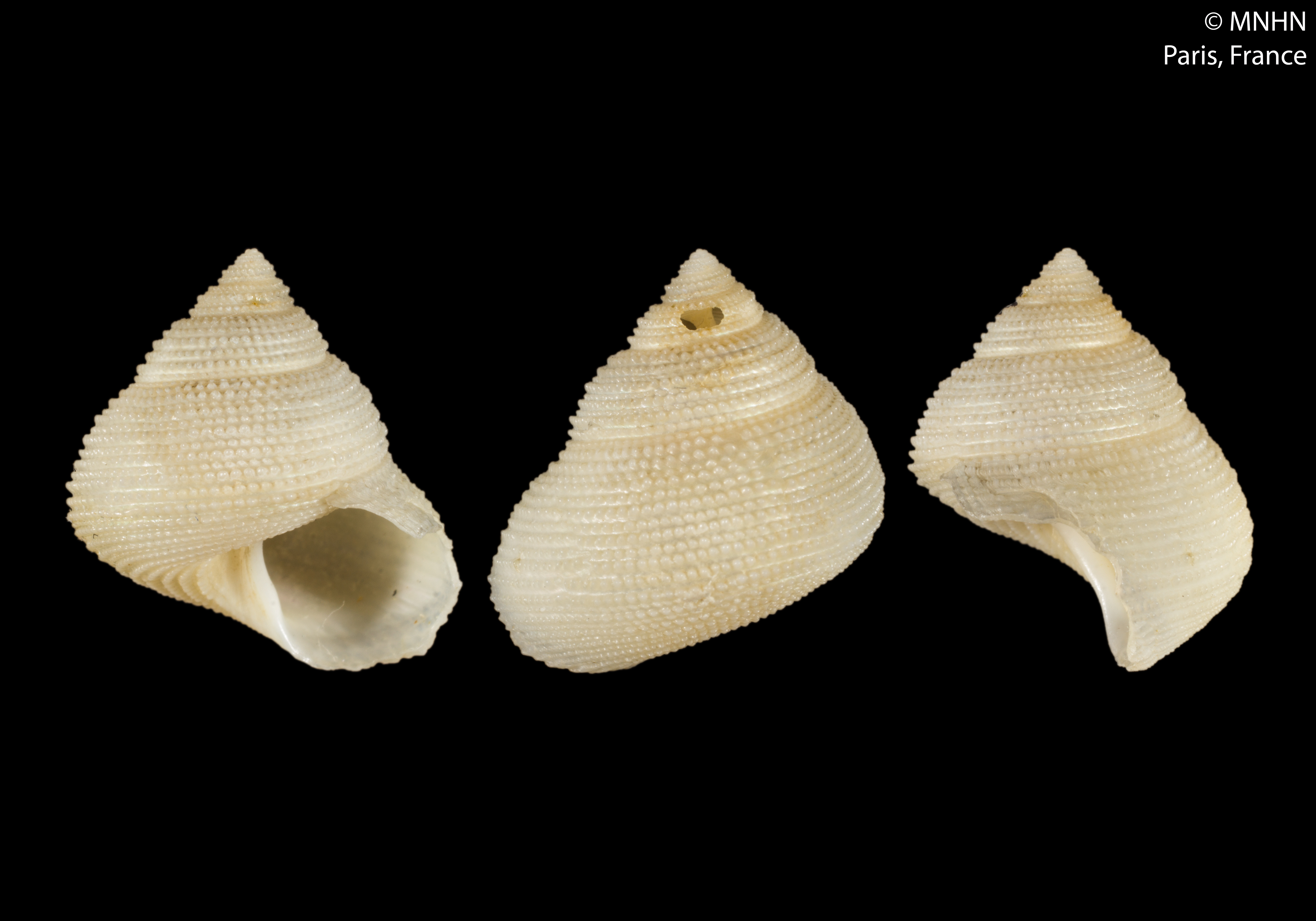 PRESERVED_SPECIMEN; Fautrix aquilonia B.A. Marshall, 1995; Type status: HOLOTYPE; Identified by: N/A; Individual count: 1; Event date: 1985-09-20T08:00:00Z